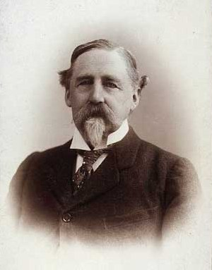 Frantz Ernst Bille (1832-1918), Danish diplomat and governor of the West Indies (Virgin Islands)